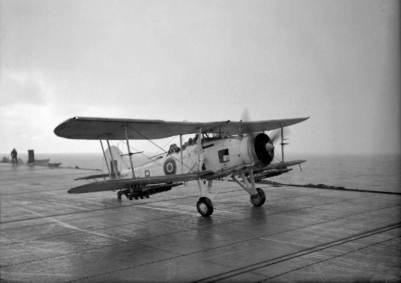 A Royal Navy Fairey Swordfish aircraft of 816 Naval Air Squadron taking-off from the flight deck of HMS Tracker (D24) for an anti-submarine sweep in the North Atlantic.